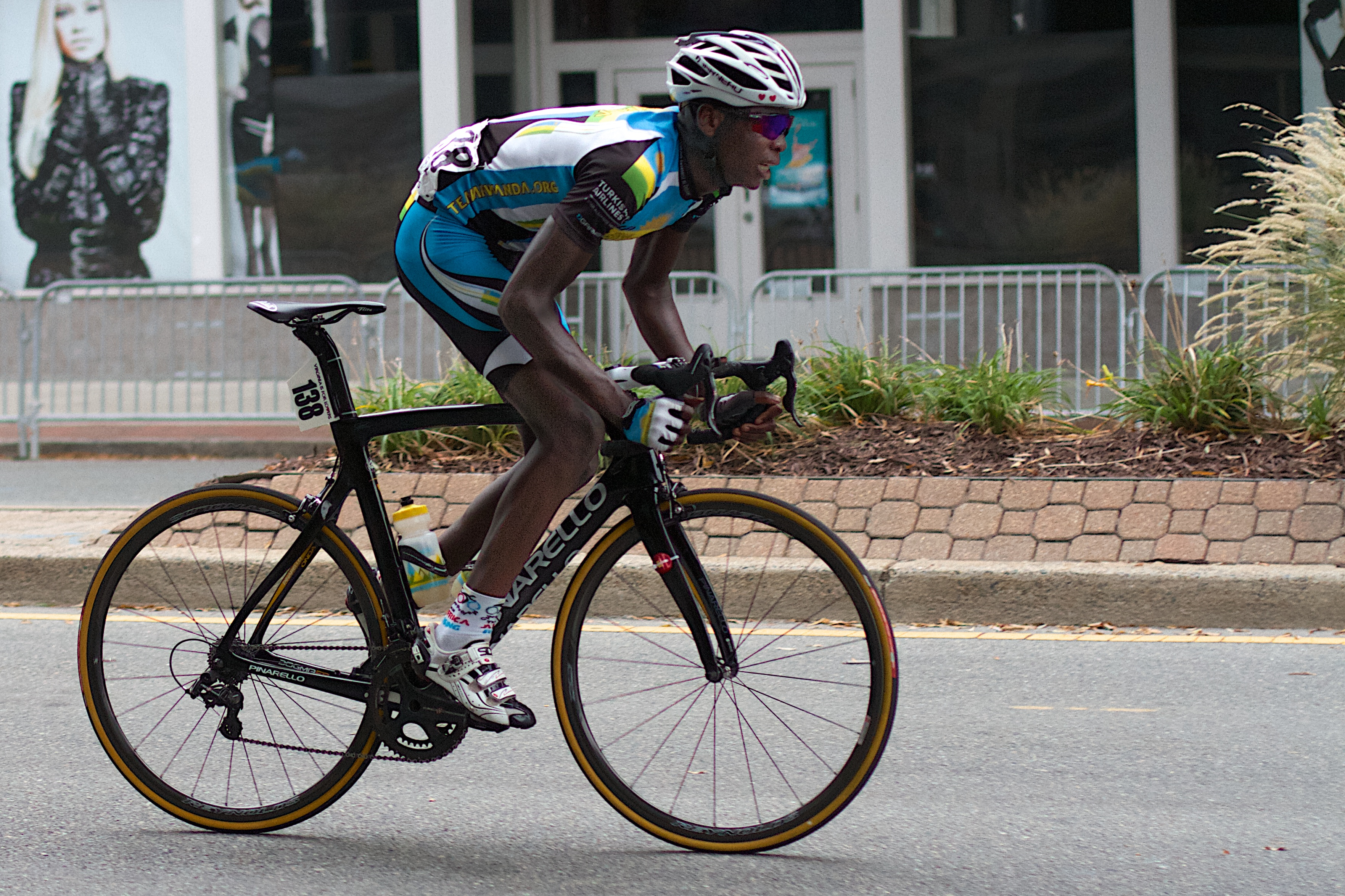 UCI Road Championship Races, Richmond VA 2015 UCI Road World Championships, in Richmond, United States, men's under-23 road race Depicted person: Jean Bosco Nsengimana